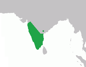 Distribution of Macaca radiata based on Jack Fooden, Fieldiana Zoology 45